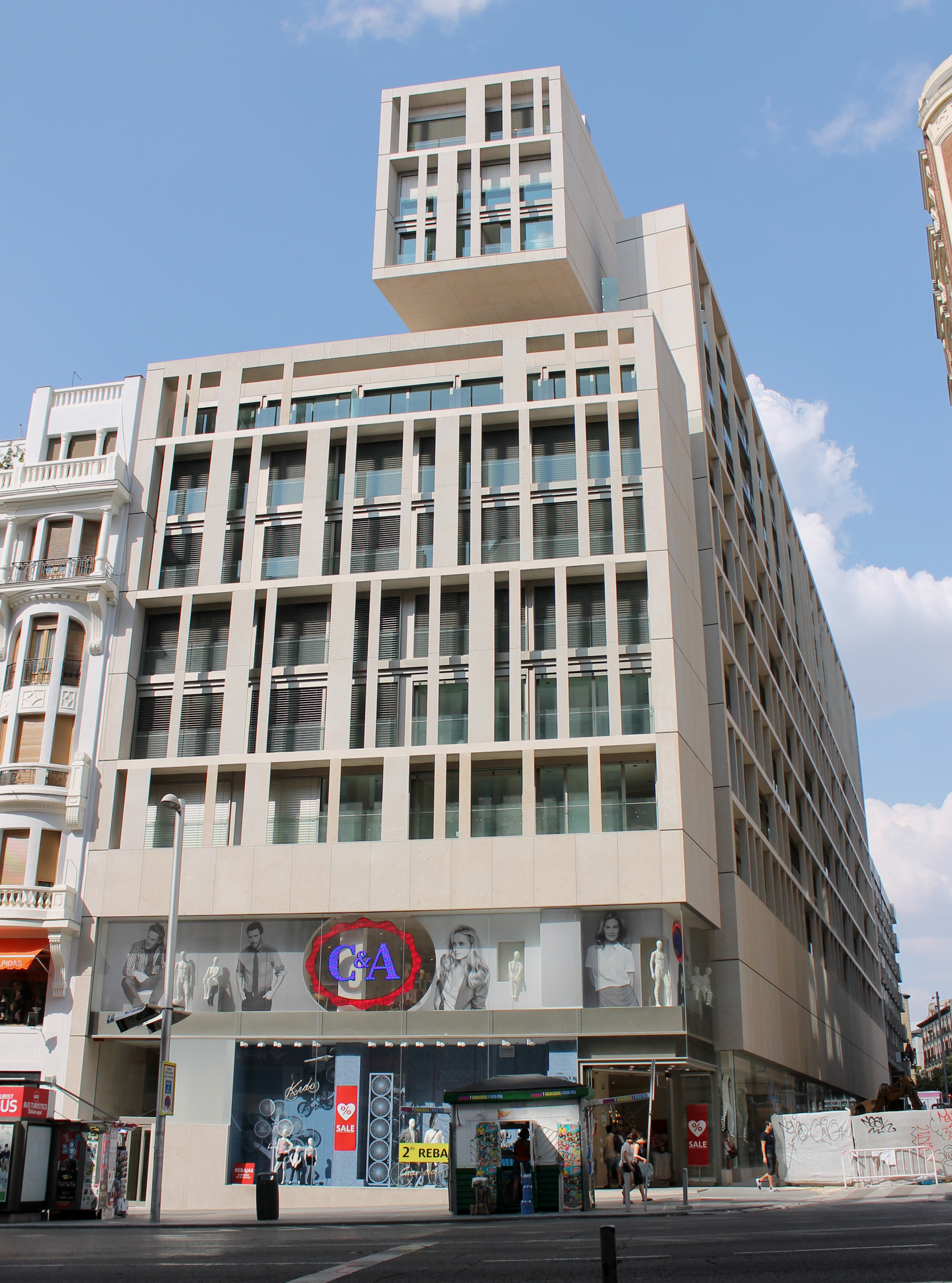 Façade of Gran Vía 48 building in Madrid (Spain).